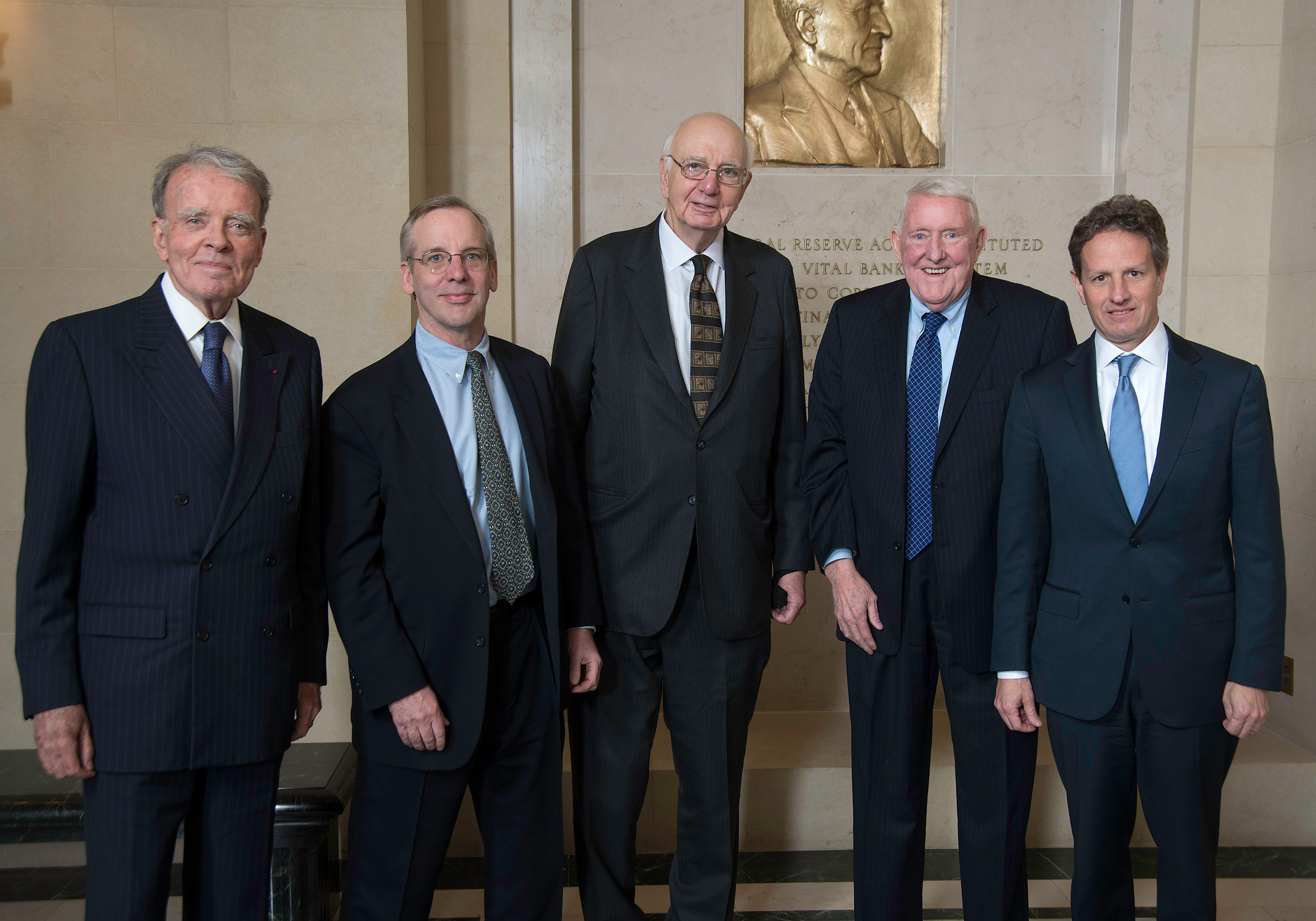 Current and Former FRB New York Presidents (Left to Right: William McDonough; William C. Dudley; Paul A. Volcker; E. Gerald Corrigan; Timothy F. Geithner)